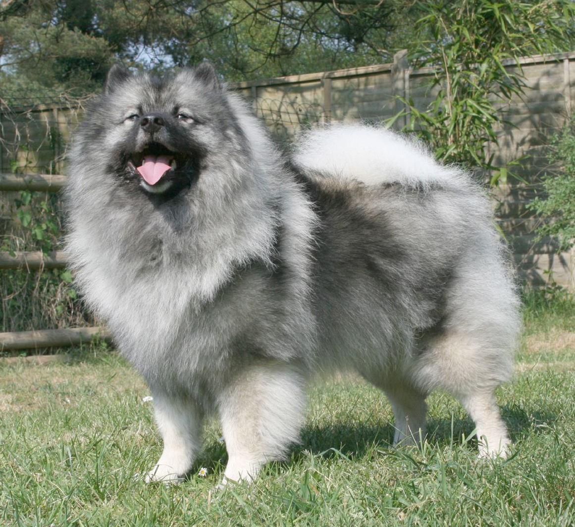 A Keeshond named Majic.